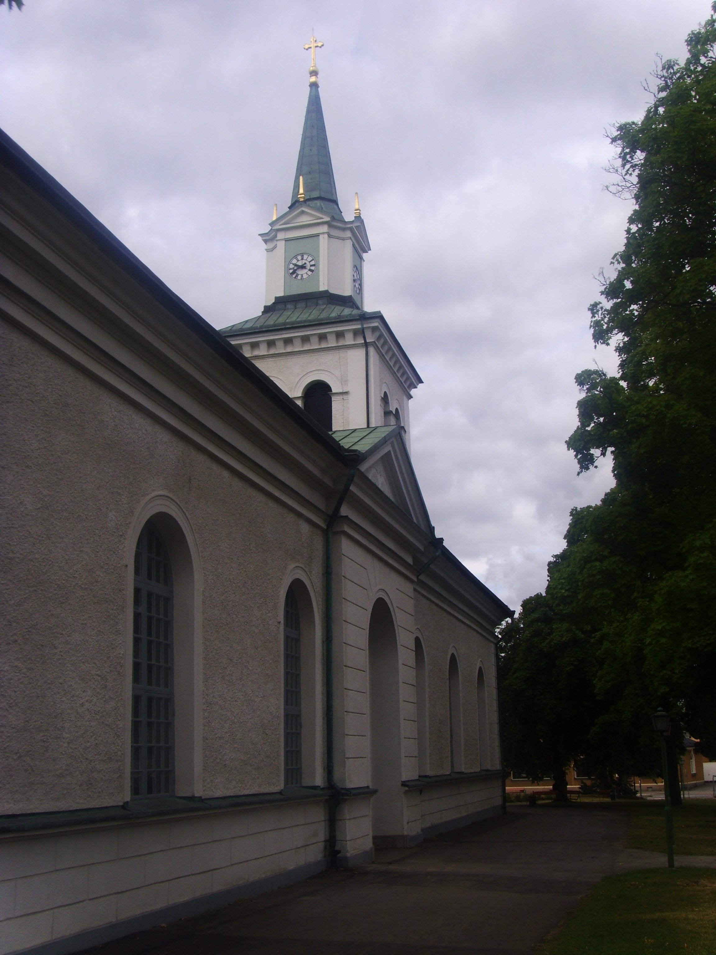 The church in Vimmerby.